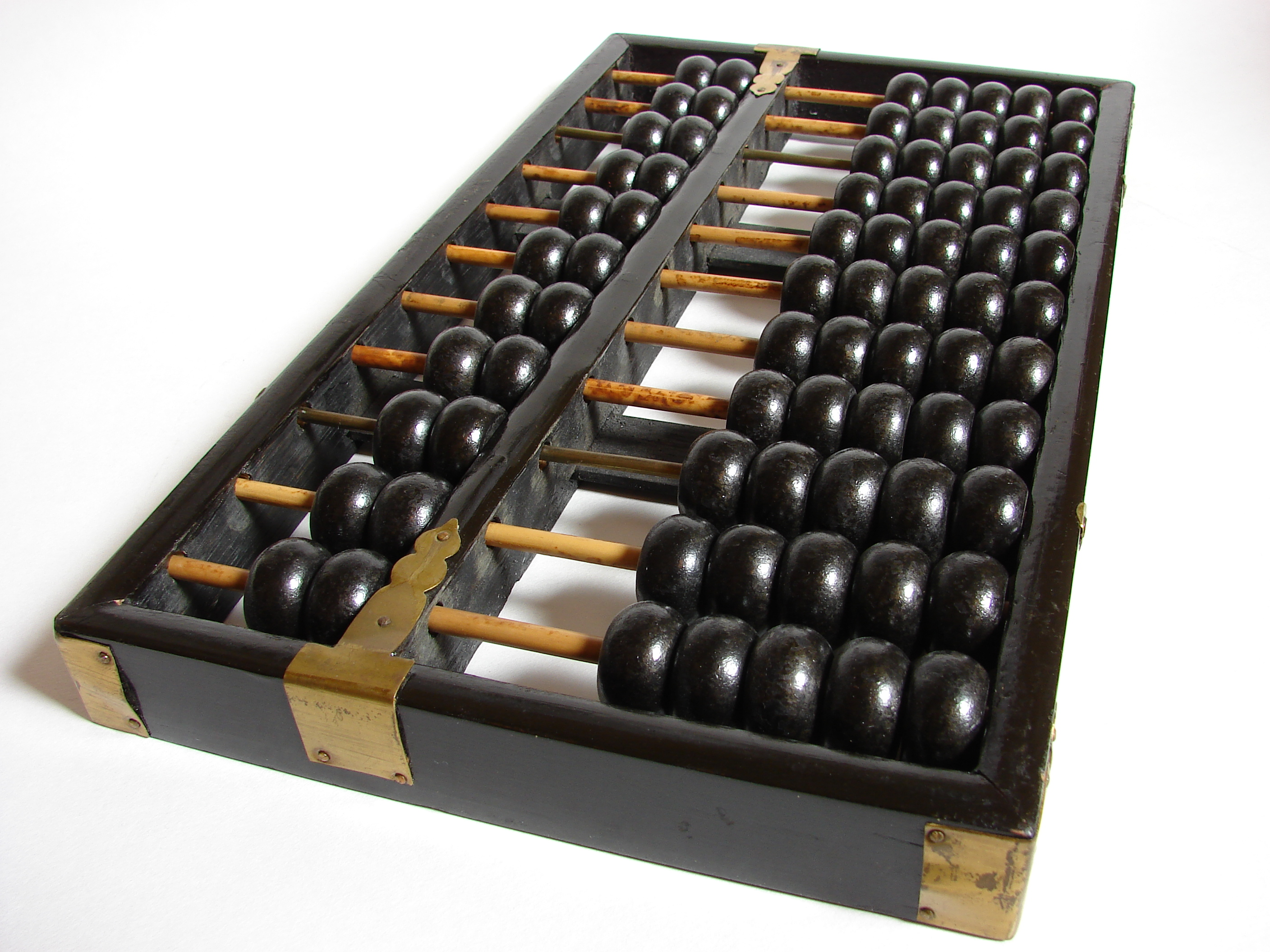 Chinese abacus.